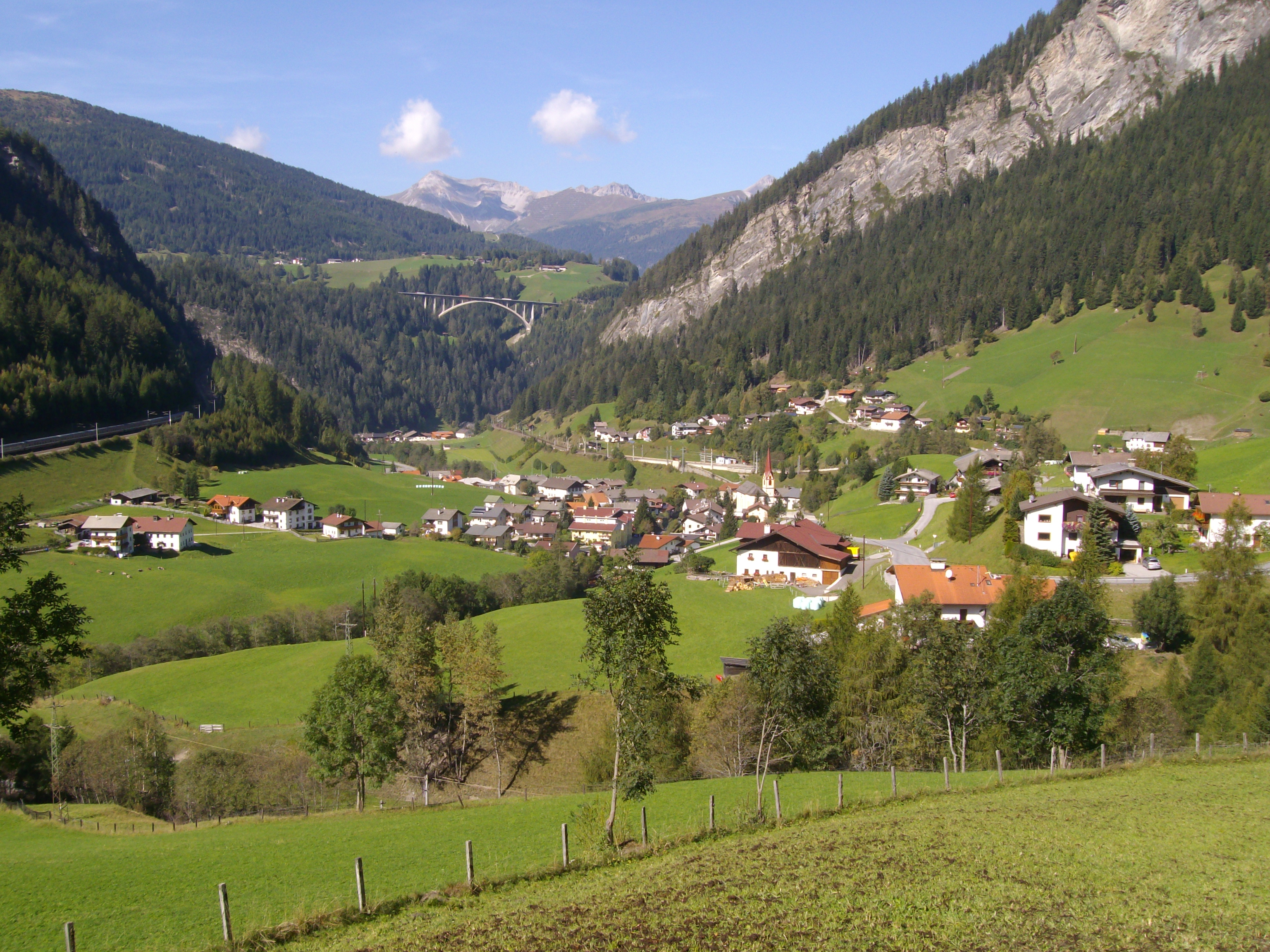 Austria, Tyrol (state), Vals. St. Jodok is a village just at the beginning of Valsertal.